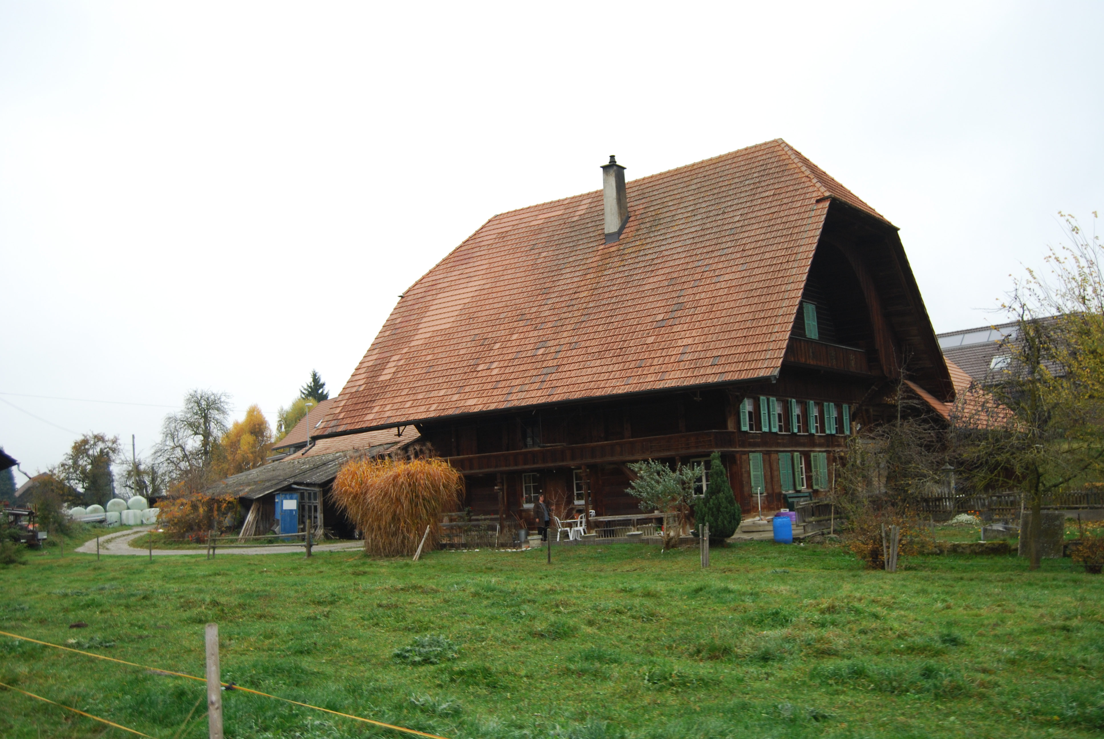 Iffwil, canton of Bern, SwitzerlandEsperanto: Iffwil, Kantono Berno, Svislando